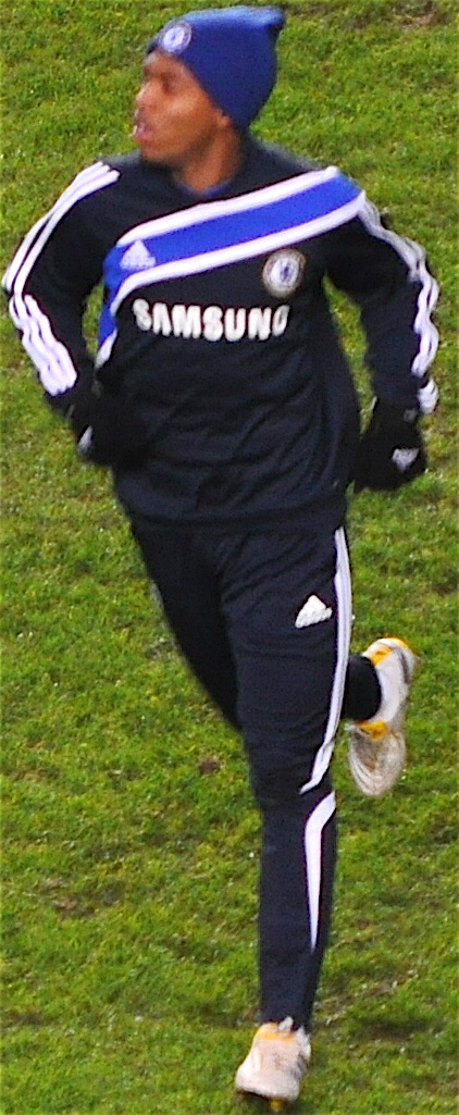 Daniel Sturridge - chelsea